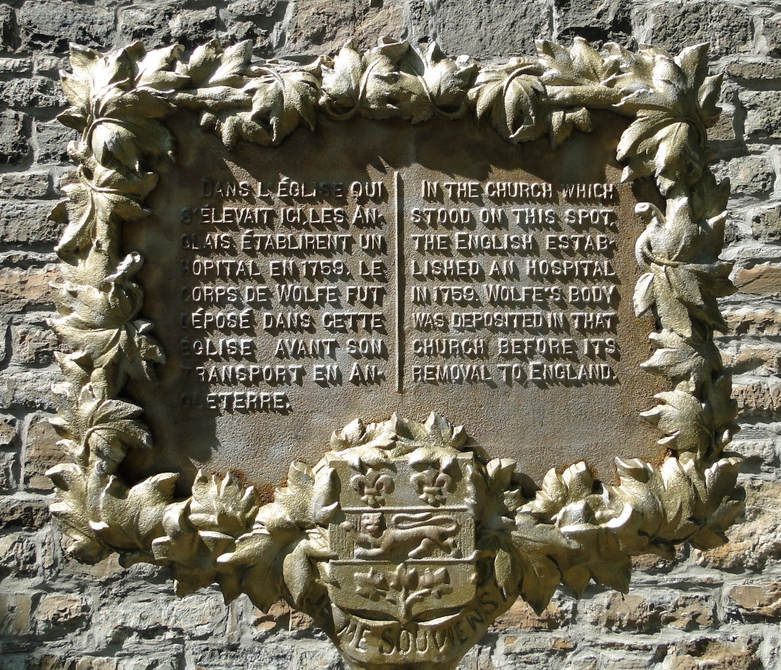 Commemorative plaque indicating that the James Wolfe's body was deposited in a church in St.Joseph-de-la-Pointe-Lévy (today City of Lévis) in 1759 before its removal to England. Located in Lévis, province of Quebec, Canada